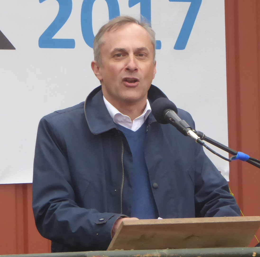 The mayor of Høje Taastrup Municipality, Michael Ziegler, speaking at the 40 years anniversary of the narrow gauge heritage railway Hedelands Veteranbane.